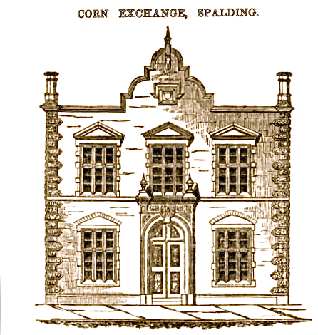 Spalding Corn Exchange 1855 by Bellany and Harding